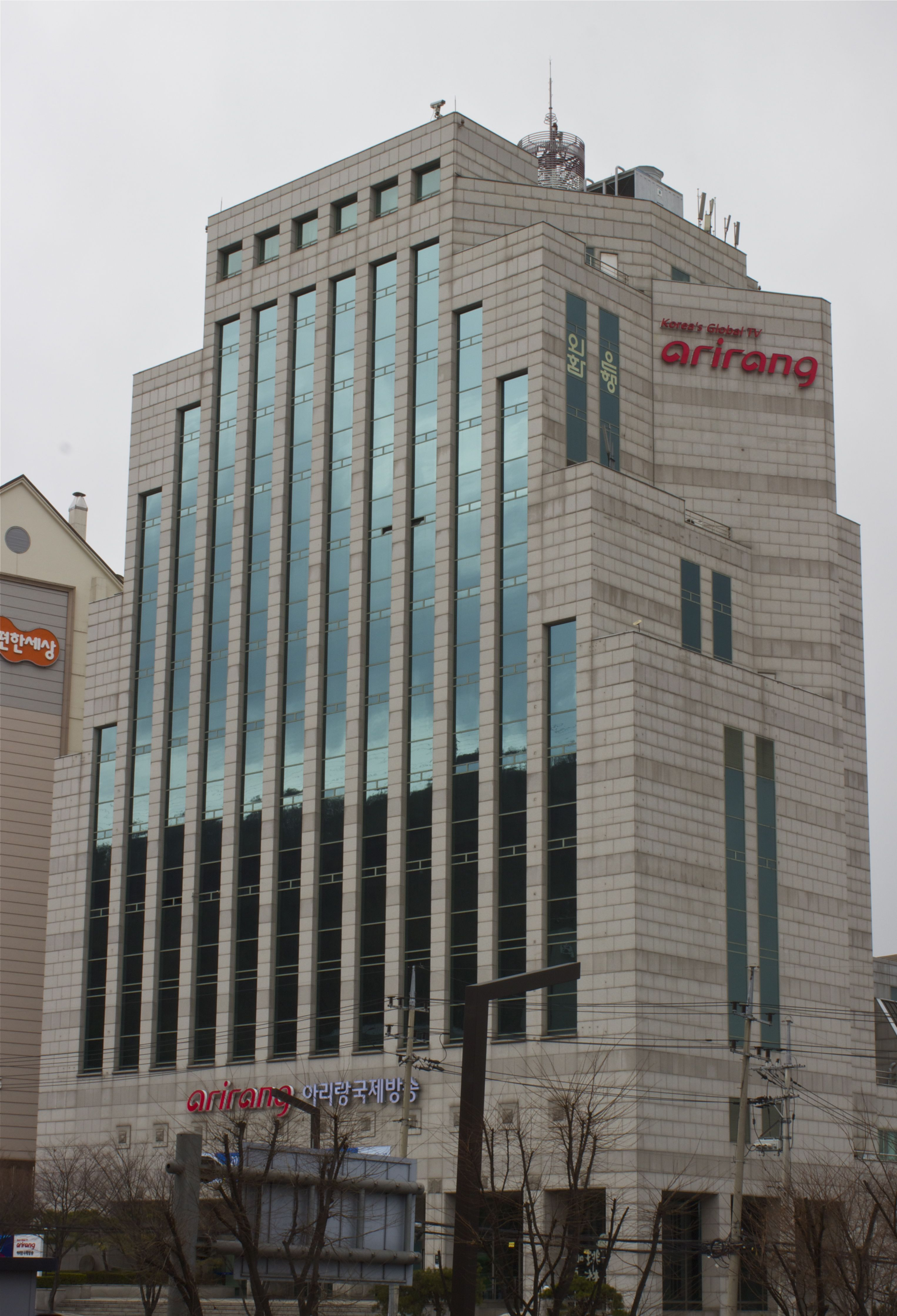 Arirang Tower at 2351 Nambusunhwan-ro, Seocho-dong, Seocho-gu, Seoul, South Korea.